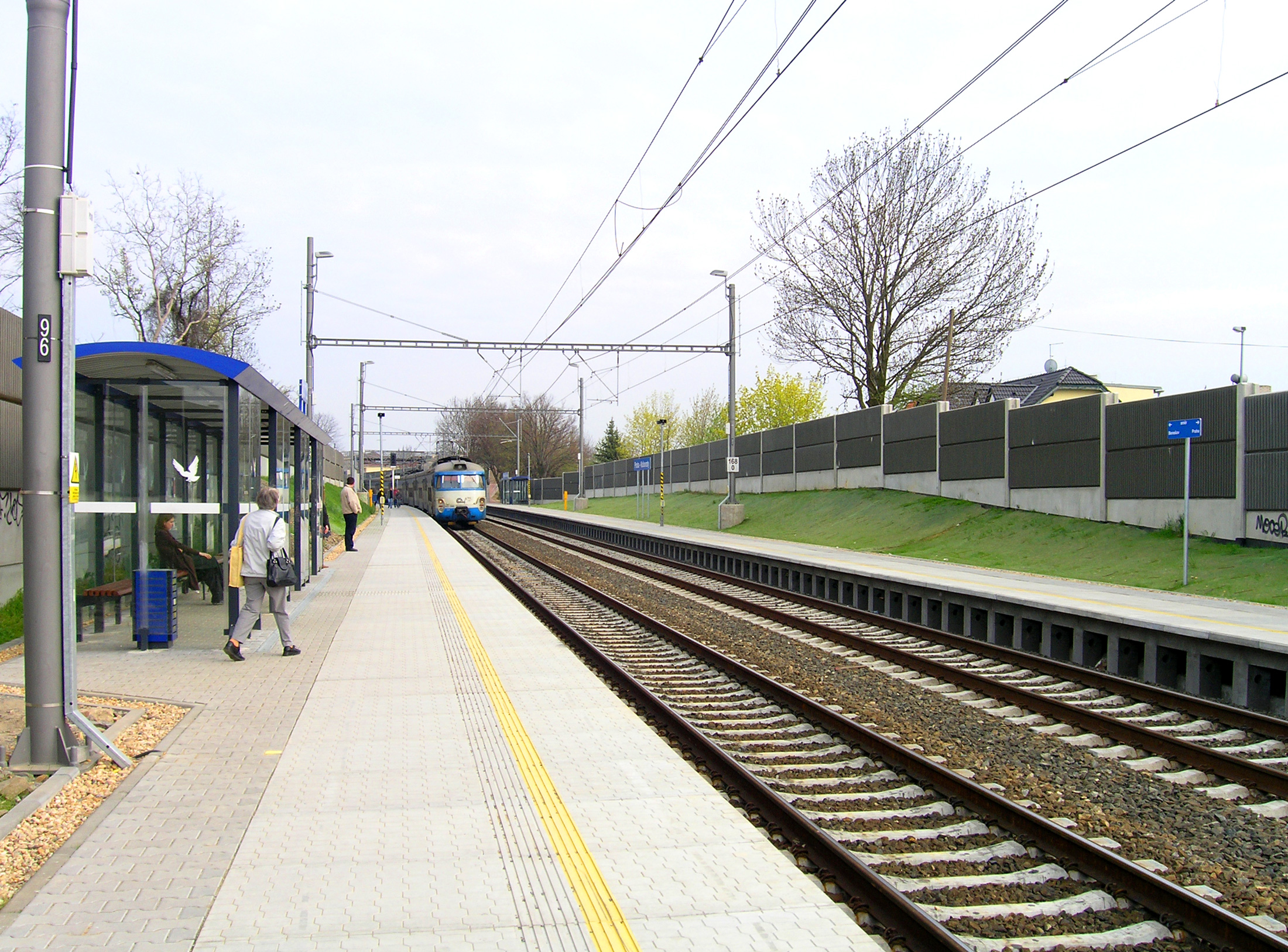 Railway station in Kolovraty, Prague